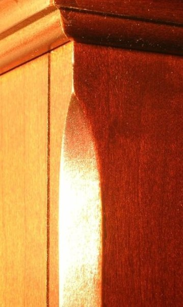 Armoire corner, showing lark's tongue end of chamfer.